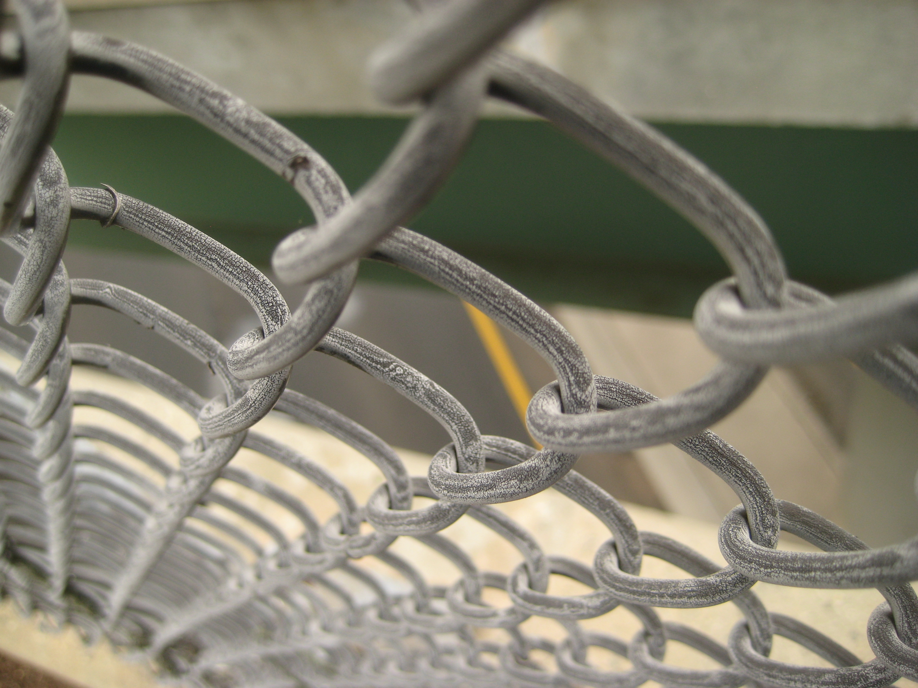 Macro of a chain link fence.